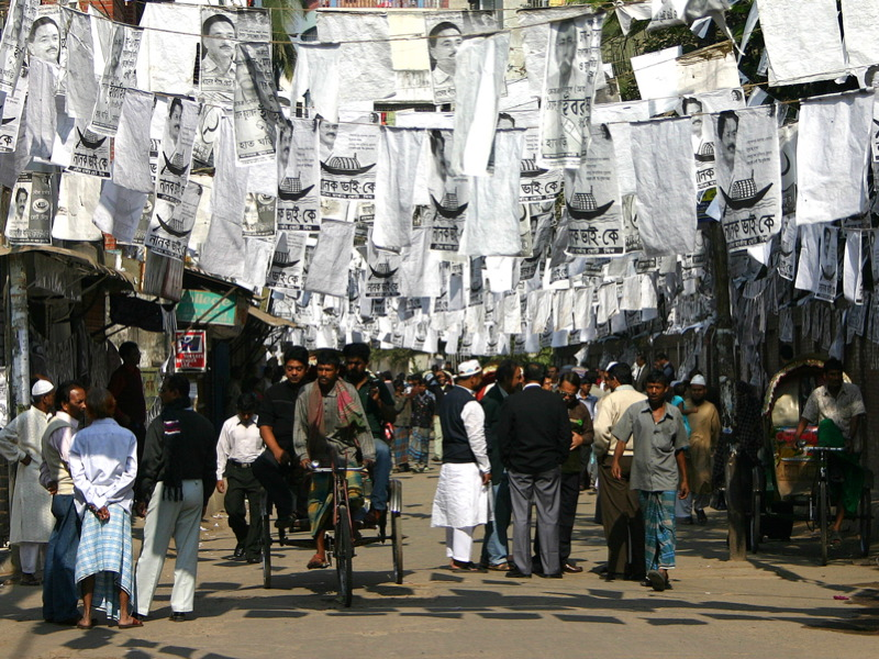 Bangladesh [9th Parliamentary] Election, December 29th, 2008